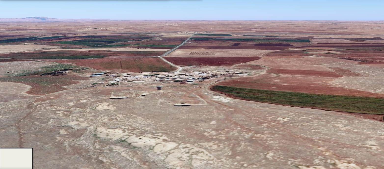 Tandir/Sirêckê resim